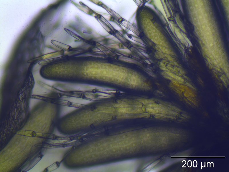 Zypressen-Schlafmoos (Hypnum cupressiforme), Antheridium mit Paraphysen, etwa 125x vergr.